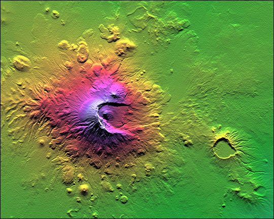 Tanzania - Mount Meru volcano Two visualization methods were combined to produce this image: shading and color coding of topographic height. The shade image was derived by computing topographic slope in the north-south direction. Northern slopes appear bright and southern slopes appear dark, as would be the case at noon at this latitude in June. Color coding is directly related to topographic height, with green at the lower elevations, rising through yellow, red, and magenta, to blue and white at the highest elevations.